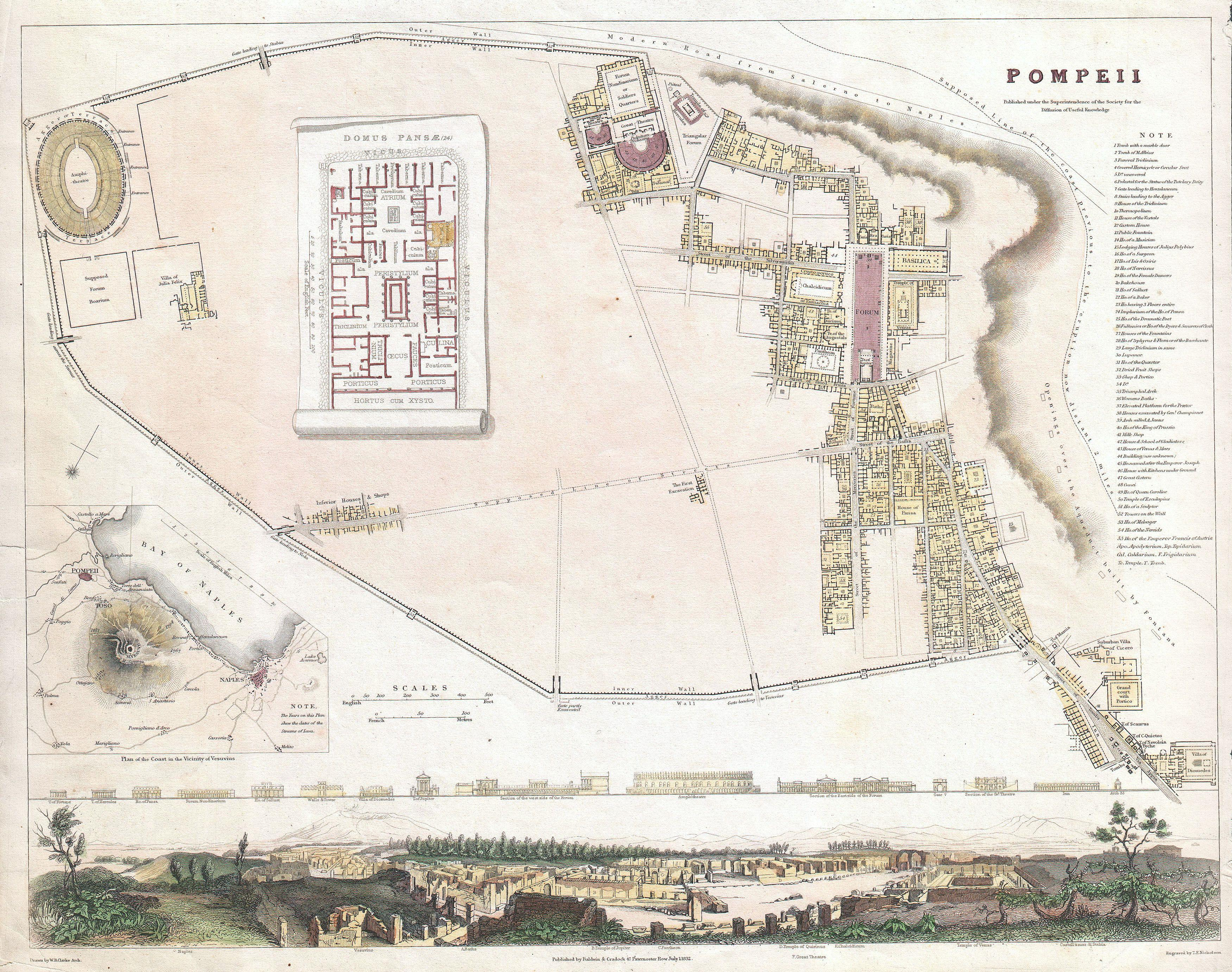 A beautiful example of the 1832 S.D.U.K. map of Pompeii, Italy. Pompeii was destroyed by the eruption of the volcano Vesuvius, in A.D. 79 and remained buried under ash until its rediscovery in 1748. Though excavations had been in process for nearly 60 years when this map was printed, very little of this ancient Roman city had been unearthed. The excavated portions of Pompeii, confined to the right hand quadrants of the map, drew the attention of the world as more and more of the fantastically preserved pleasure city was unearthed. For Englishmen and women visiting Italy as part of the “Grand Tour”, Pompeii was a must see. The discoveries here, reported by travelers, may have been partially responsible for the classical revival of the mid 19th century. Map shows the walled city of Pompeii with numerous important buildings labeled including the Amphitheater, the Villa of Julia Felix, the Forum, the Grand Theater, the Temple of Hercules, the Basilica, and the Grand Court, to name but a few. An inset map in the lower left hand quadrant shows Vesuvius and vicinity. Another inset set in the “unexcavated” portions of Pompeii, shows the layout of a typical Pompeii villa. A decorative view along the bottom of the map shows the cities as it must have appeared to 19th century travelers. Above this view are artistic renderings of important Pompeii Buildings. Drawn by W. B. Clarke and engraved by T. E. Nicholson for publication in the 1844 Baldwin and Craddock’s issue of the Society for the Diffusion of Useful Knowledge Atlas .